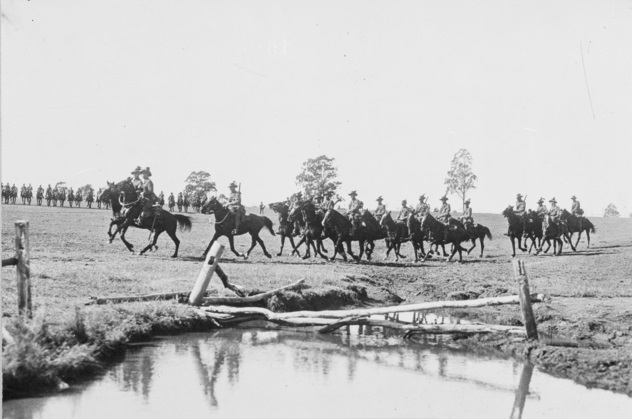 Men and horses from the 12th Light Horse Regiment training at Holsworthy camp, NSW, c. 1915